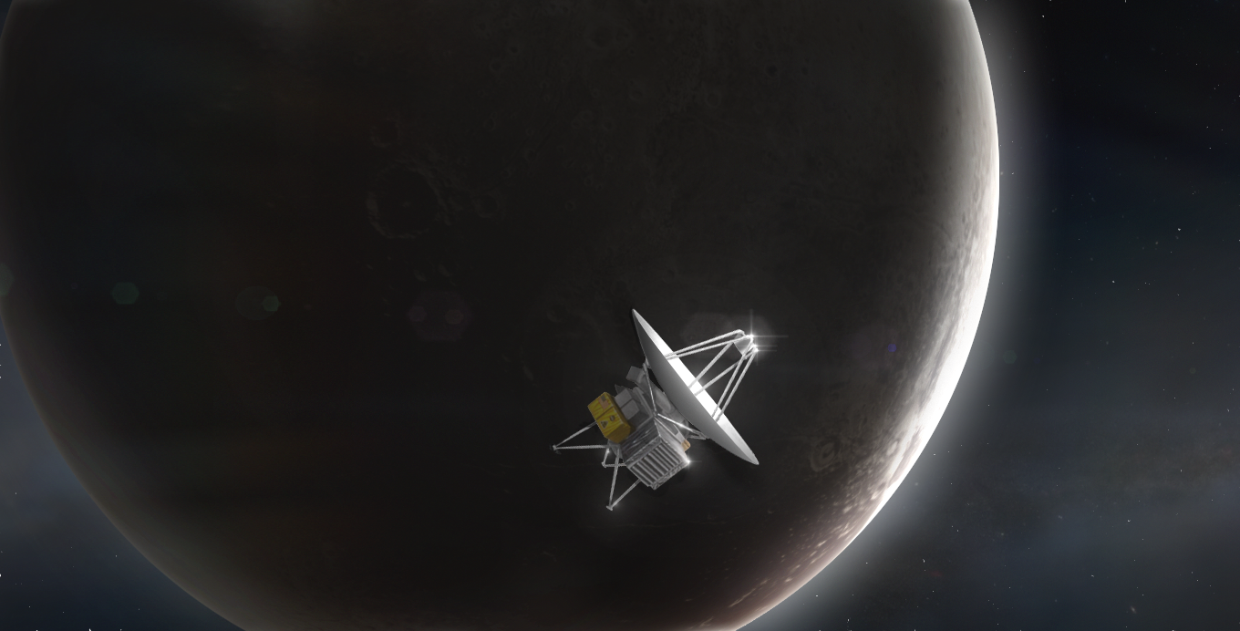 Artist’s impression of Pluto Fast Flyby mission at Pluto. The spacecraft based on NASA's early concept art in 1992, and I made this concept with a actual surface map of Pluto which was imaged by NASA's New Horizons probe in July 2015.